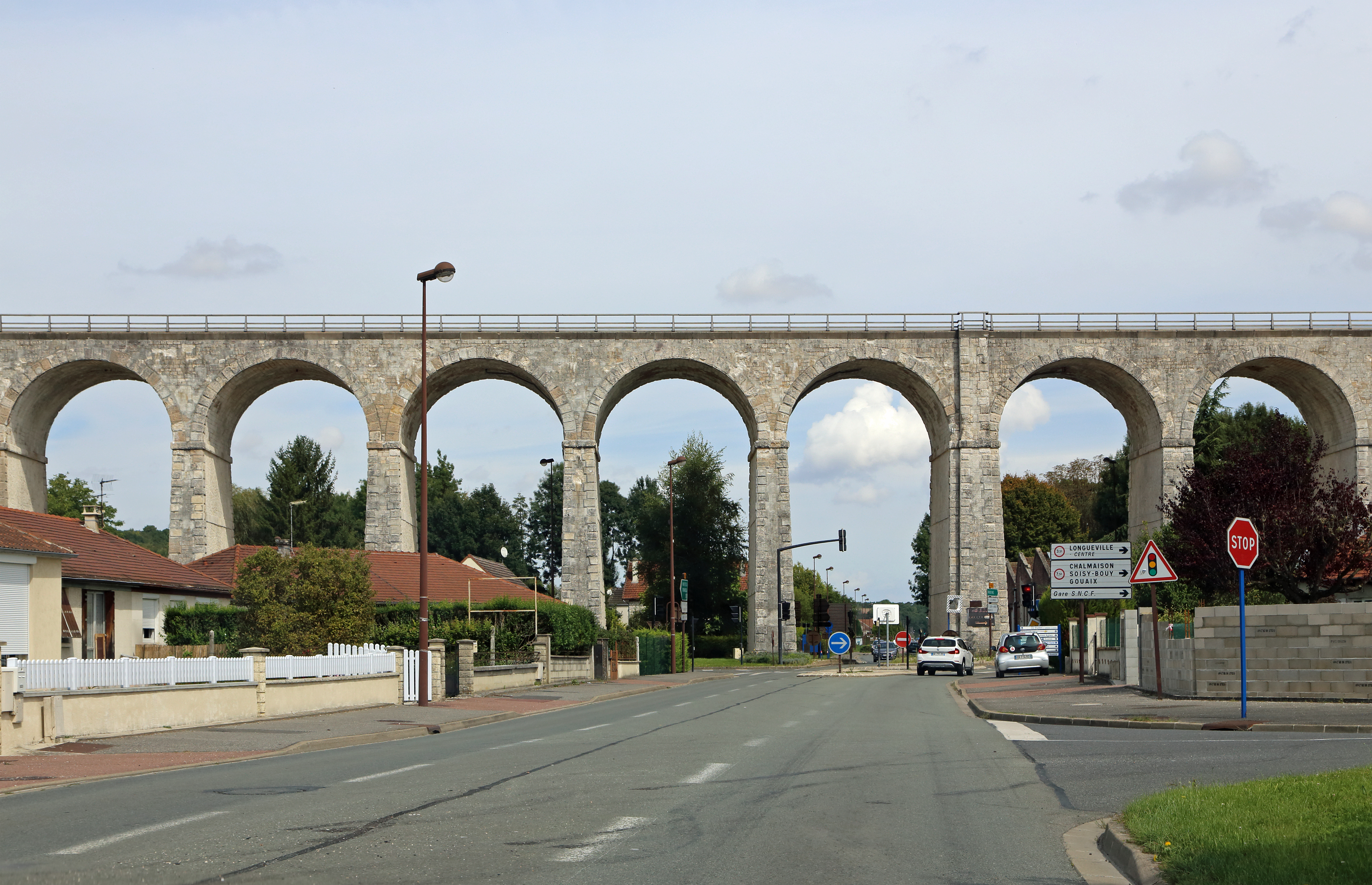 Longueville (Seine-et-Marne department, France): railway bridge, also called Viaduc de Besnard